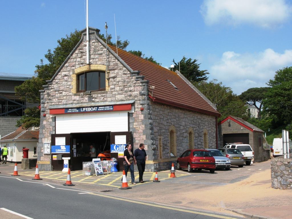 Exmouth Lifeboat Station, as seen in 2009.